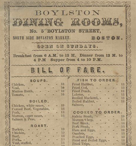 Boylston Dining Rooms, no. 5 Boylston Street, North side Boylston market. Boston. Bill of fare. [1861] ...